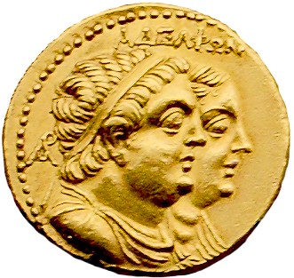 A 3rd century BC gold oktodrachmon shows the paired, profiled busts of the co-rulers of Ptolemaic Egypt. Ptolemy II Philadelphus (285–246 BC; front) wears a diadem and drapery. His sister and wife Arsinoe II (rear) wears a veil. The Greek inscription "ΑΔΕΛΦΩΝ" (adelphōn) means "of siblings".